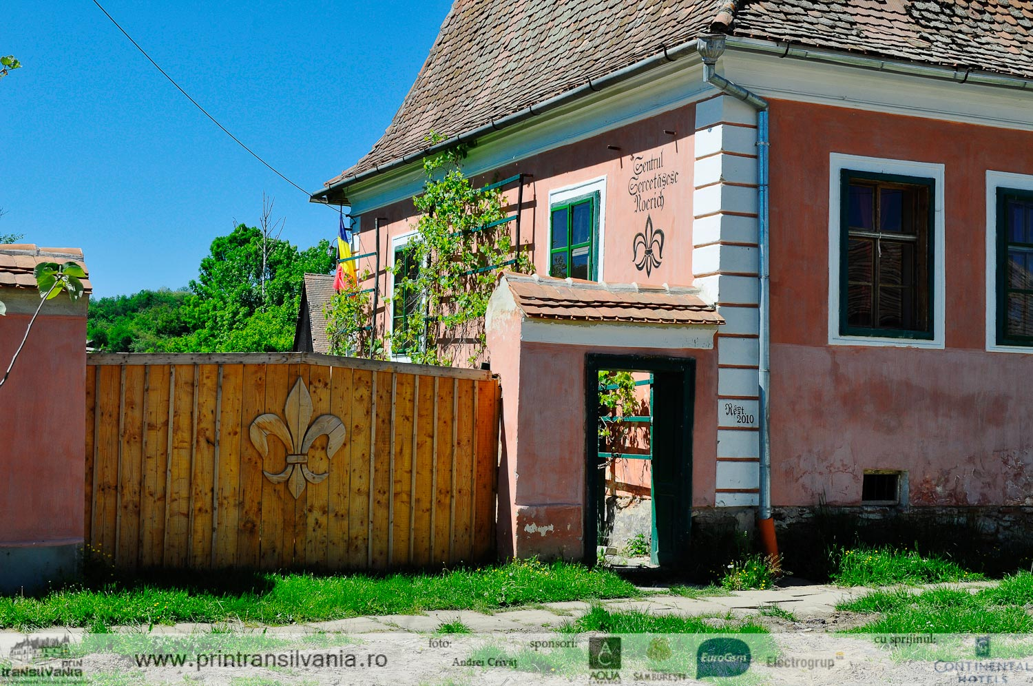 printransilvania.ro/biserica-fortificata-din-nocrich-sibiu